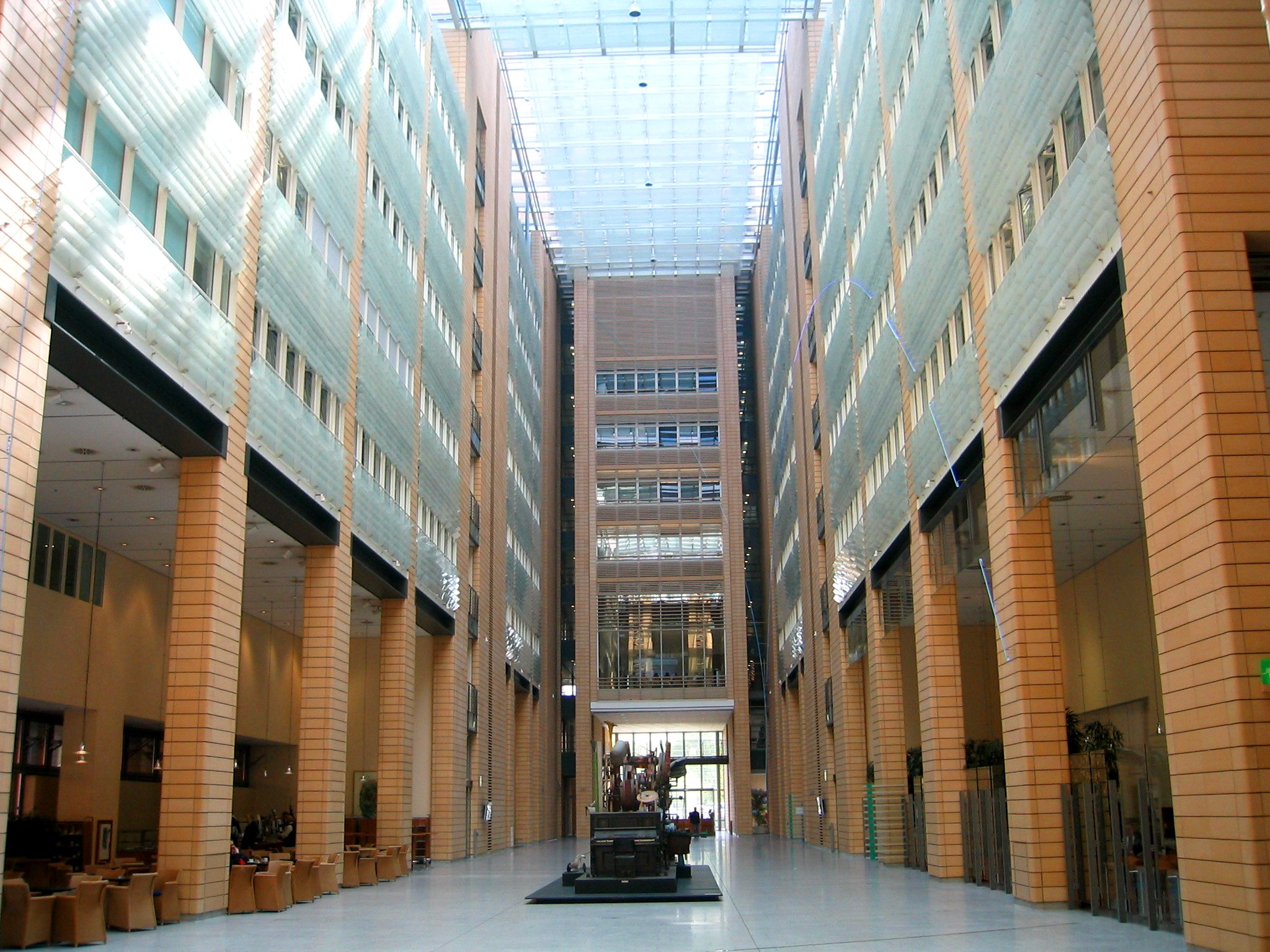 debis-Haus in Berlin - view into the Atrium